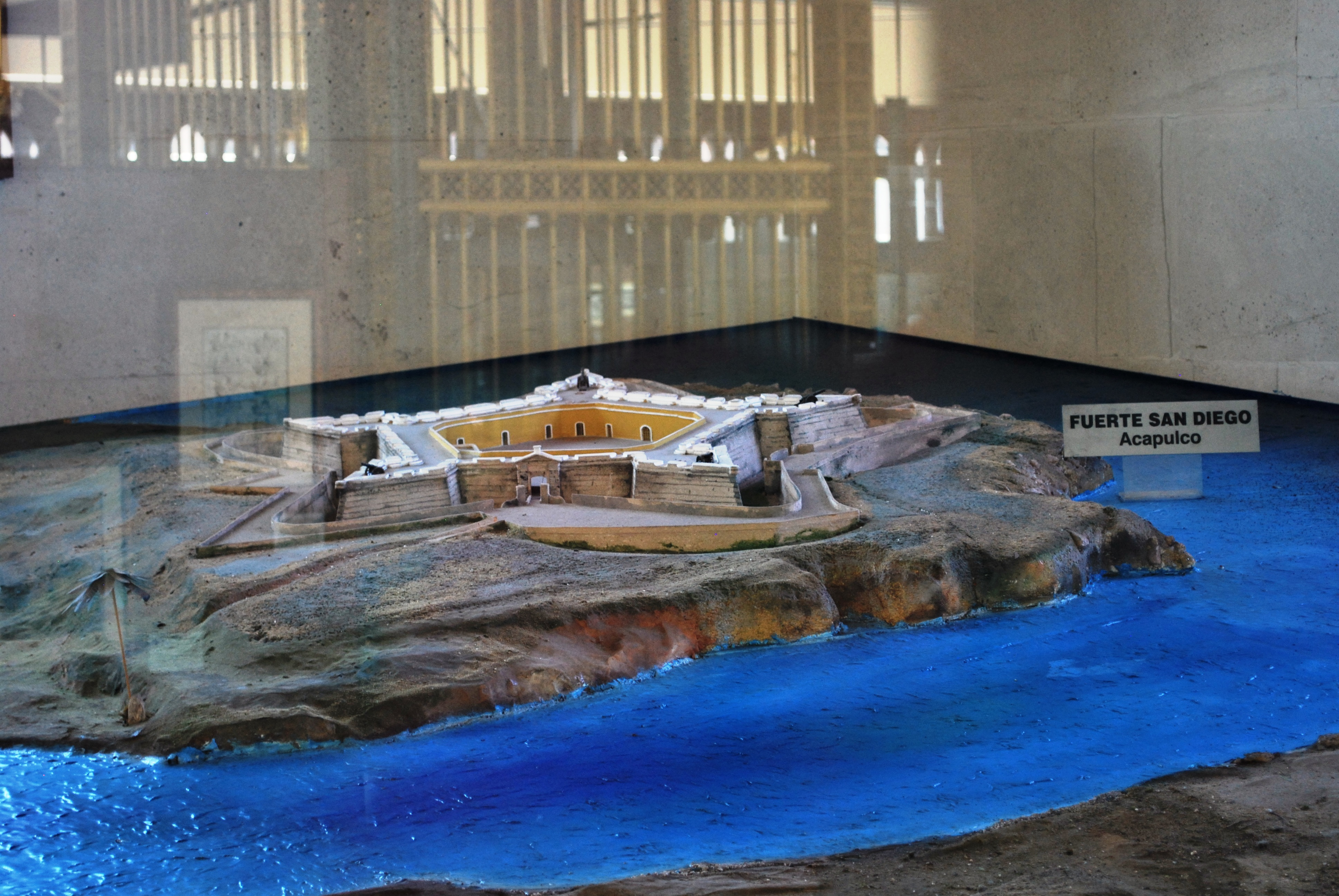 Model of Fort San Diego in Acapulco on display at the Naval History Museum in Mexico City